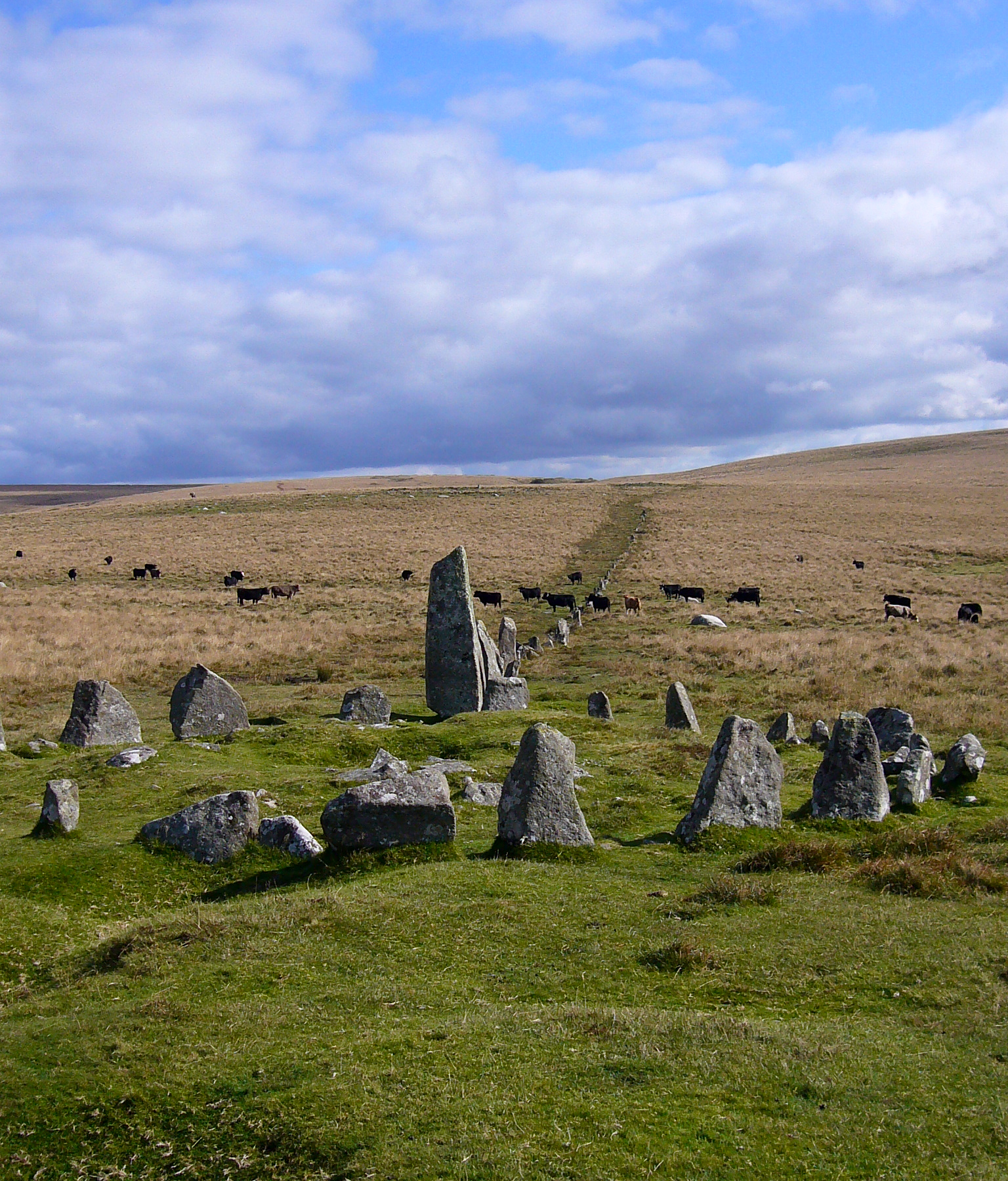 View of Down Tor stone row and stone circle on Dartmoor in South Devon, UK.